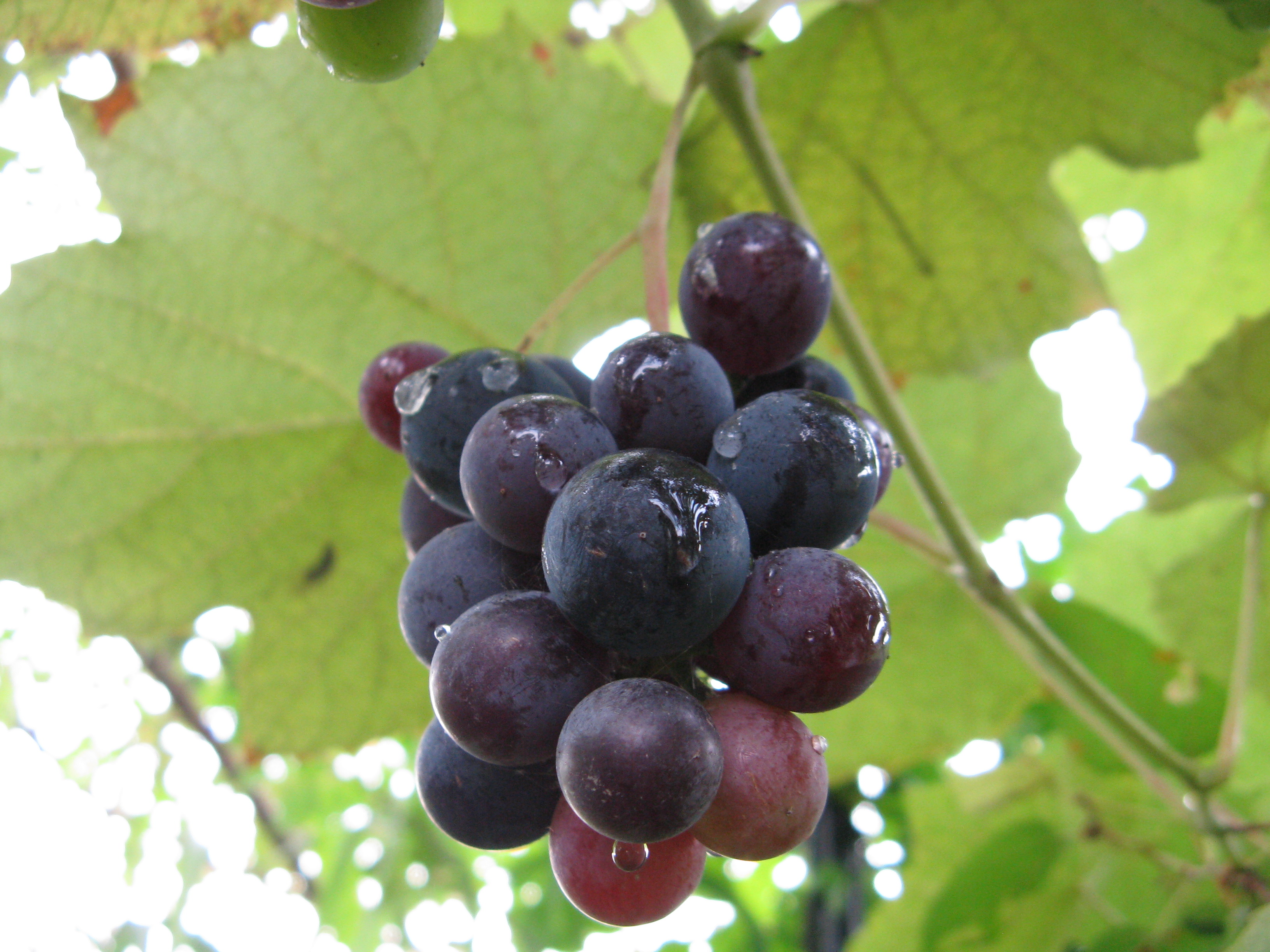 Rade Grape